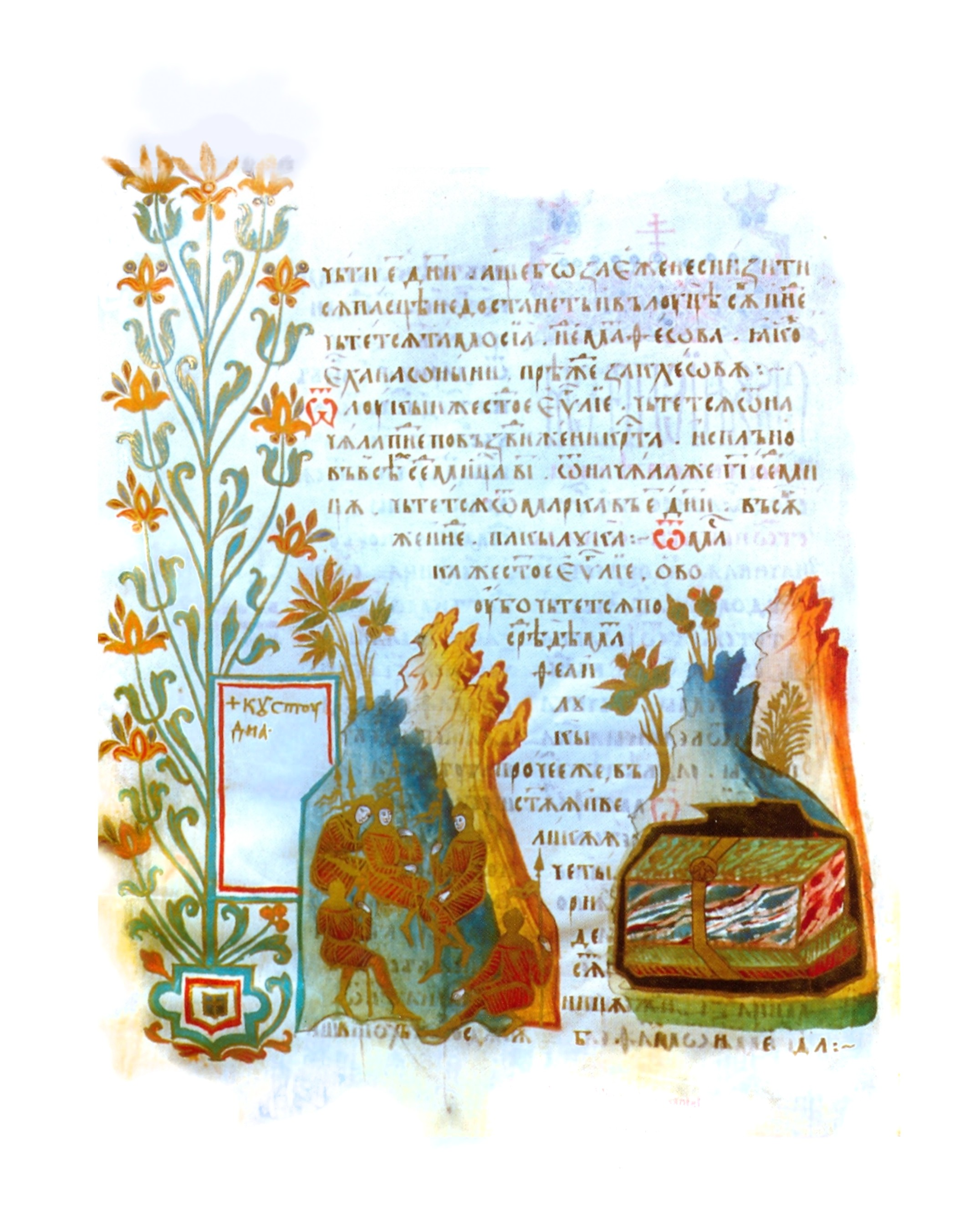 Tetraevangheliar_1609(3)_A.Crimca_soldati_pazind_Mormantul.jpg